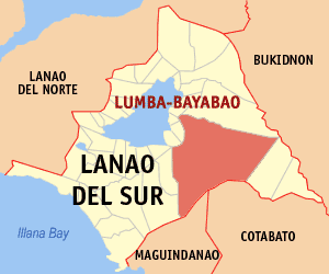 Map of the Lanao del Sur showing the location of Lumba-Bayabao